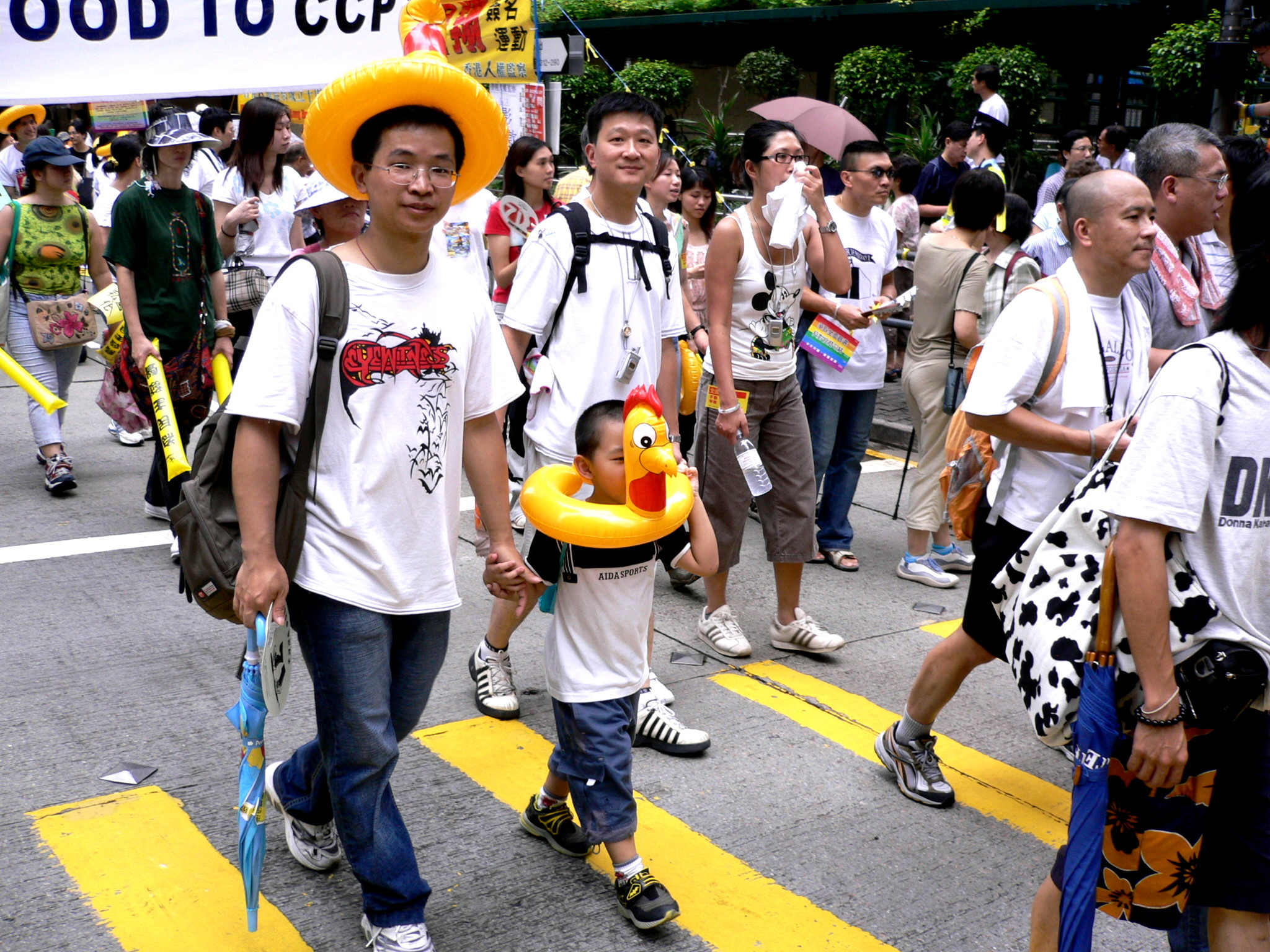 Hong Kong July 1 marches in 2005